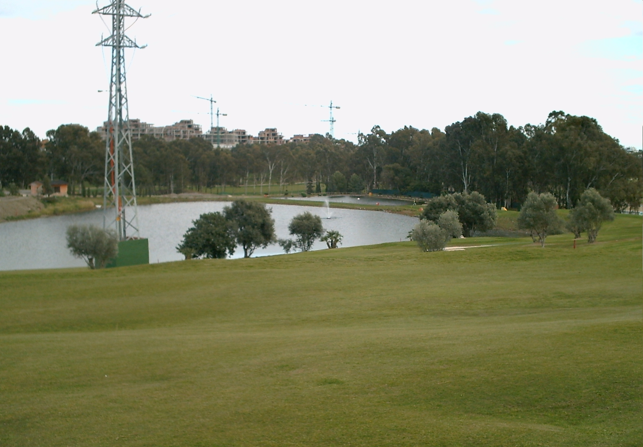 Atalaya golf course in Estepona, Andalusia